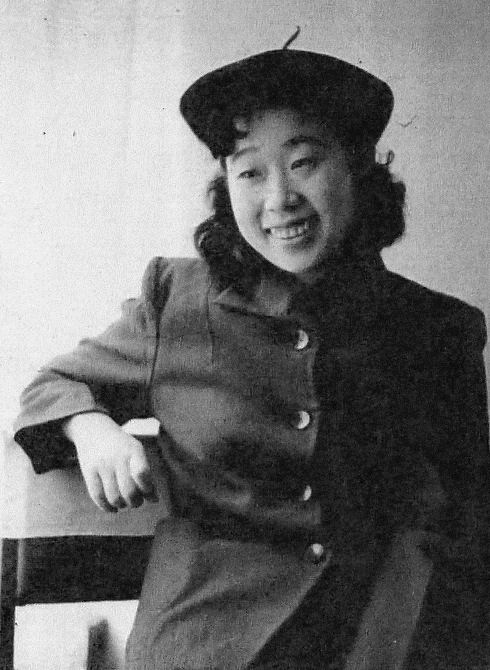 Takeko MIzutani